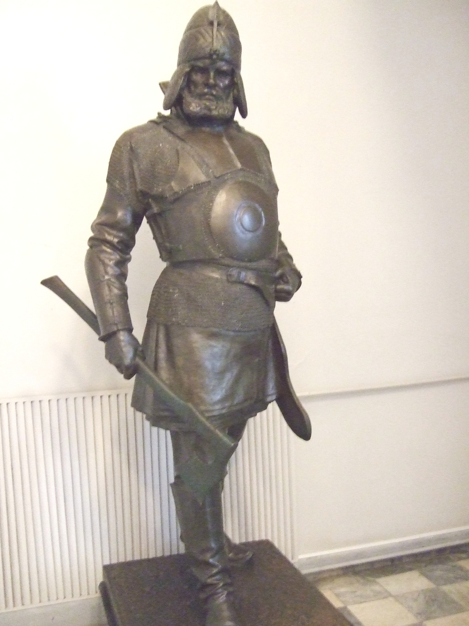 Yermak Timofeevich, conqueror of Siberia.